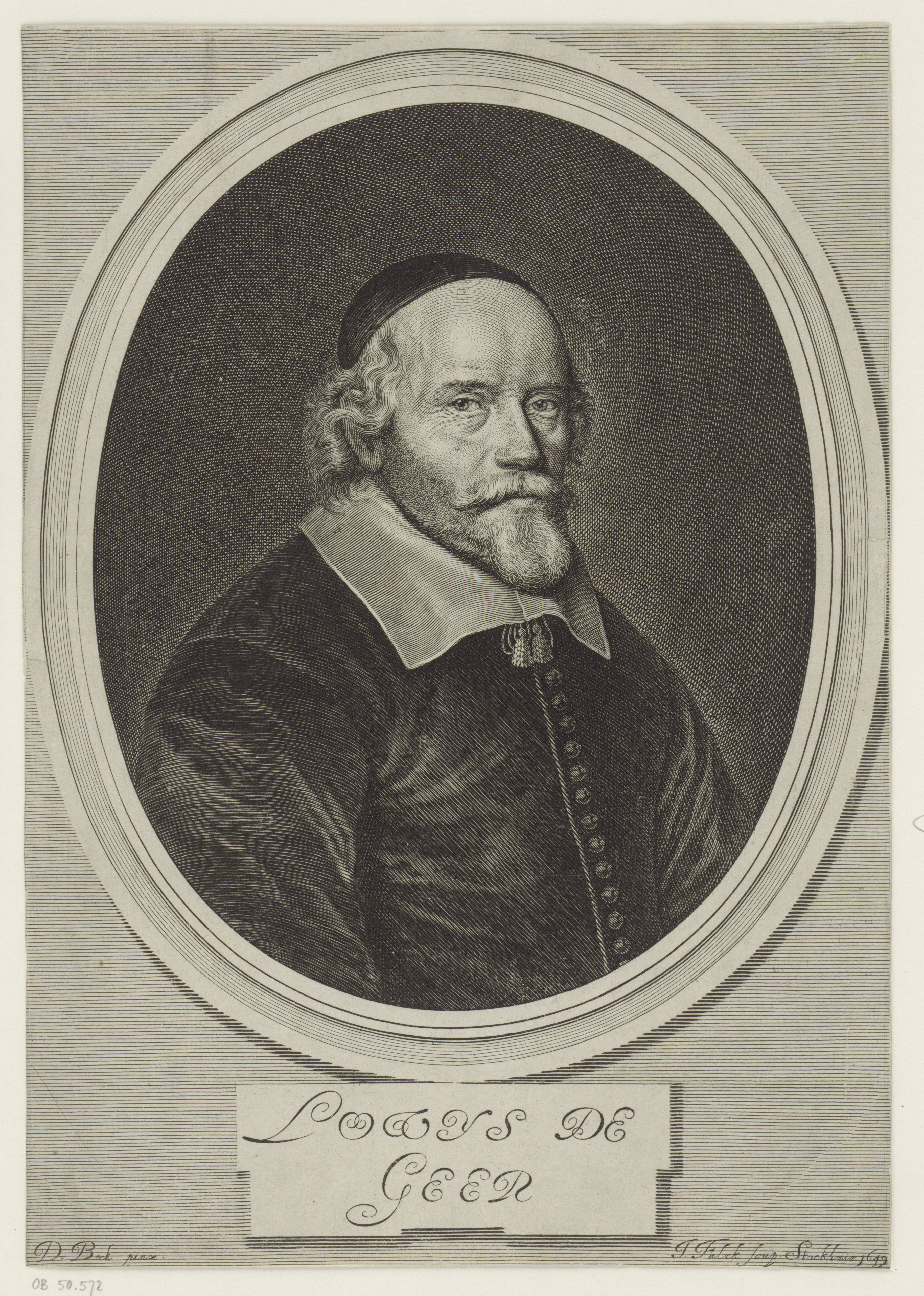 Bust of Dutch merchant Lodewijk (Louis) de Geer. Shown in a toga with a flat collar and a kippah on his head, in an oval frame.